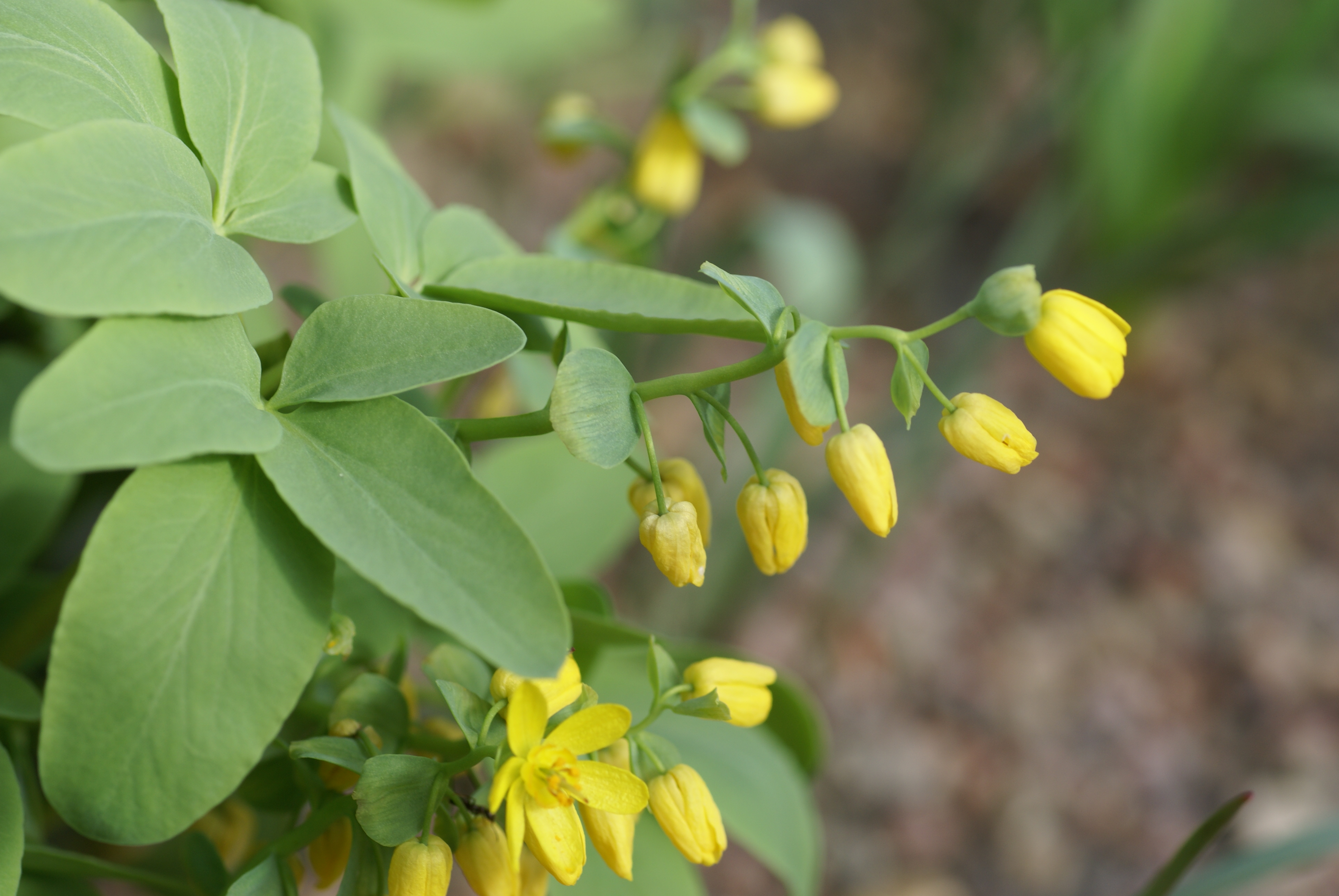 Plant species Gymnospermium altaicum in Göteborgs botaniska trädgård in Gothenburg, Stockholm